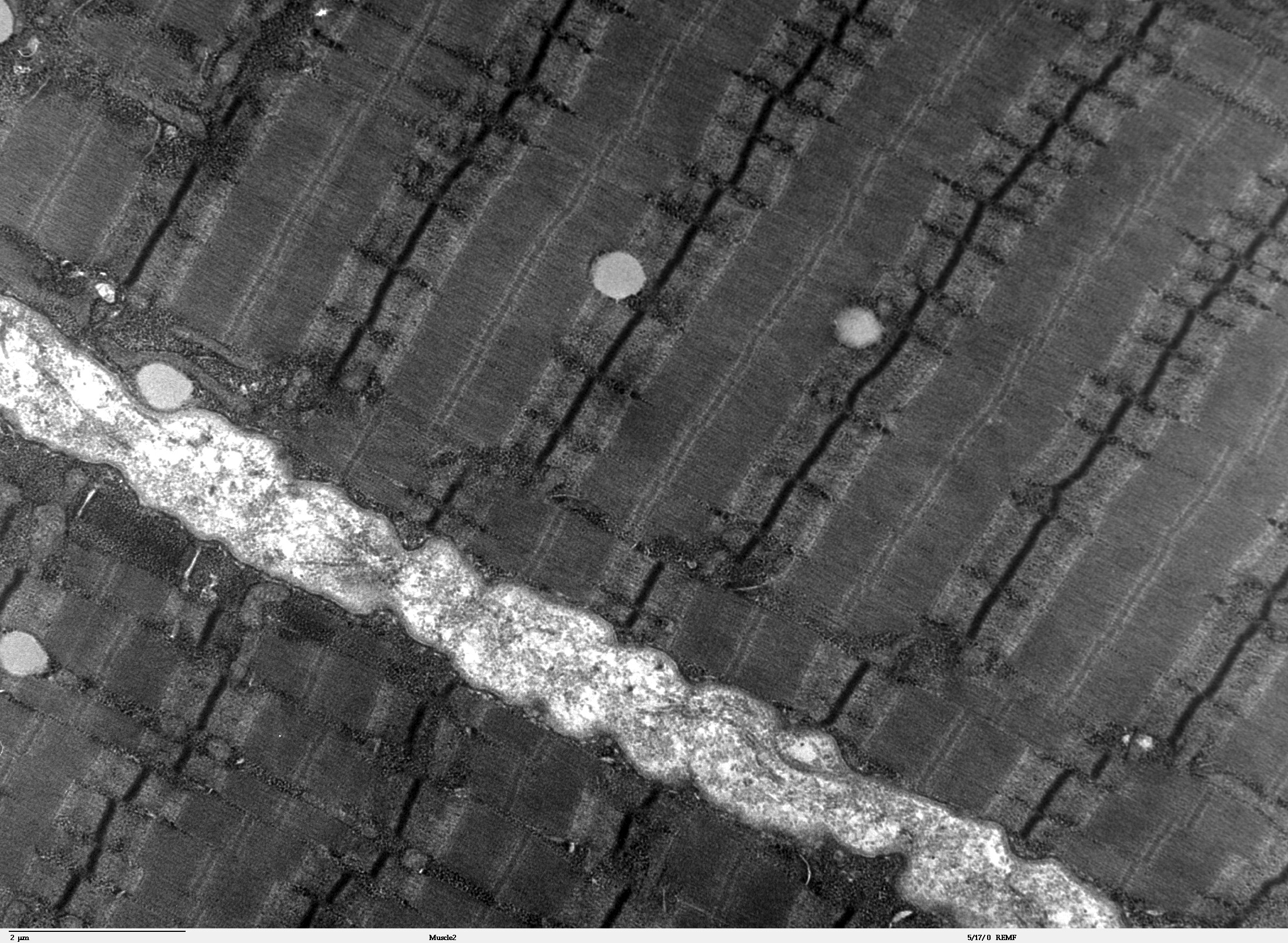 Transmission electron microscope image of a thin longitudinal section cut through an area of human skeletal muscle tissue. Image shows several myofibrils, each with the distinct banding pattern of individual sarcomeres. Image of muscle sarcomeres shows distinct banding pattern: the darker bands are called A bands(the A band includes a lighter central zone, called the H band), and the lighter bands are called I bands. Each I band is bisected by a dark transverse line called the Z-line). Paired mitochondria are on either side of the electron opaque Z-line. The Z-Line marks the longitudinal extent of a sarcomere unit. JEOL 100CX TEM